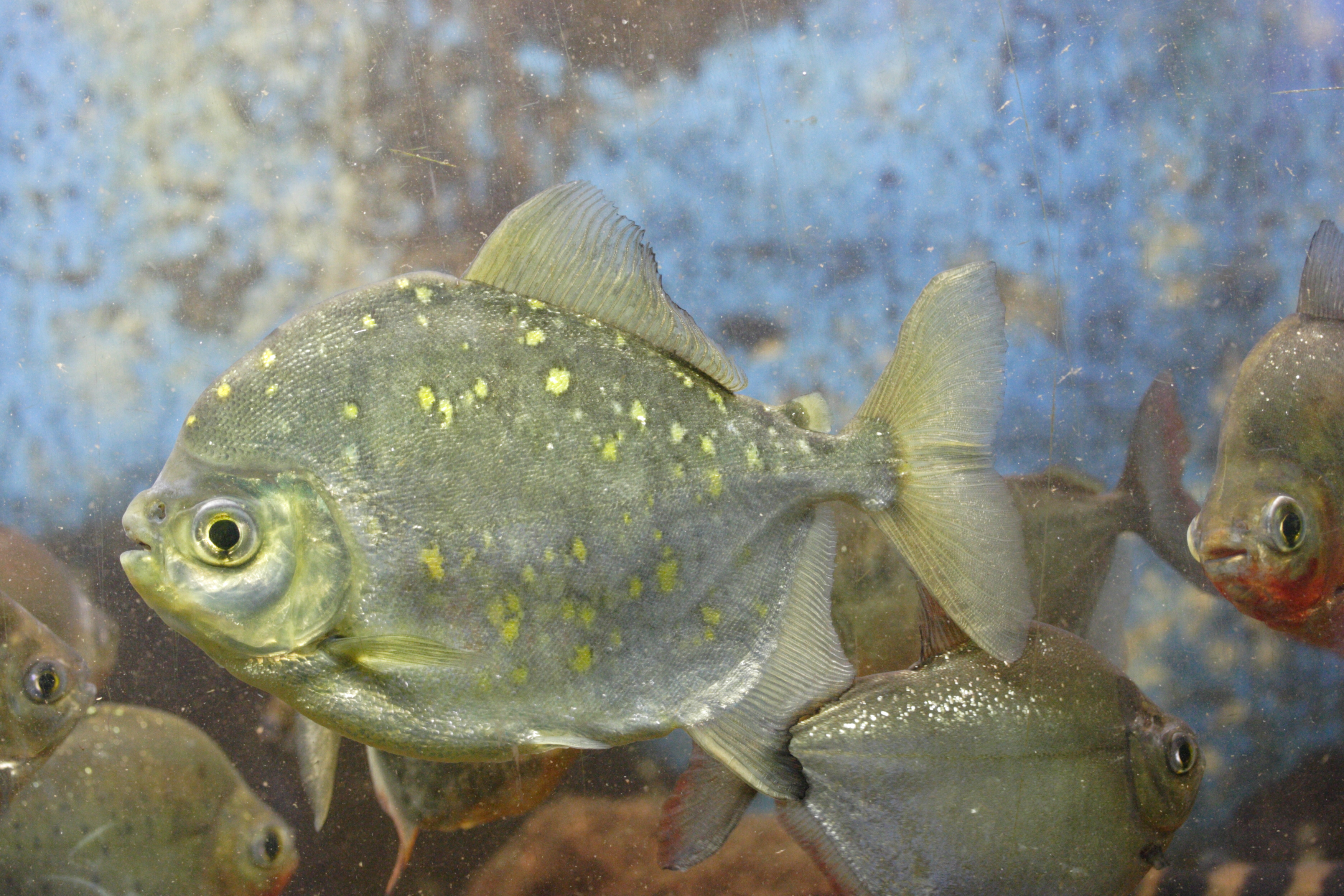 The redhook myleus (Myloplus rubripinnis) in Aquarium Erfurt, Erfurt, Thuringia, Germany.